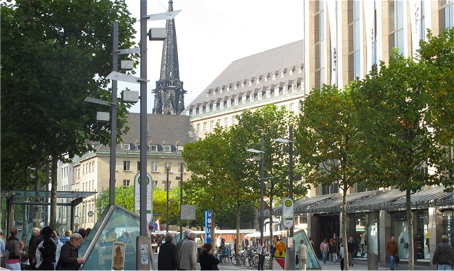 Bochum downtown: Massenbergstrasse, in the background the city hall and tower of Christus-Church